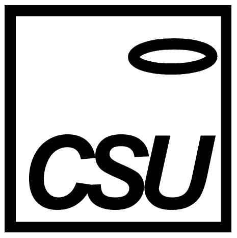 Logo of Centro Studi Ufo